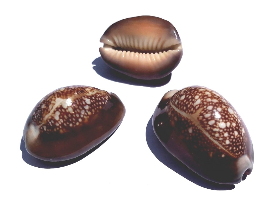 Seashells of Monetaria caputserpentis (Linnaeus, 1758)[1]; distributed in the coral reefs of the shallow waters from the Indo-Pacific. ABBOTT, R. Tucker; DANCE, S. Peter (1982). Compendium of Seashells. A color Guide to More than 4.200 of the World's Marine Shells. New York: E. P. Dutton. p. 86. 412 pp. ISBN 0-525-93269-0